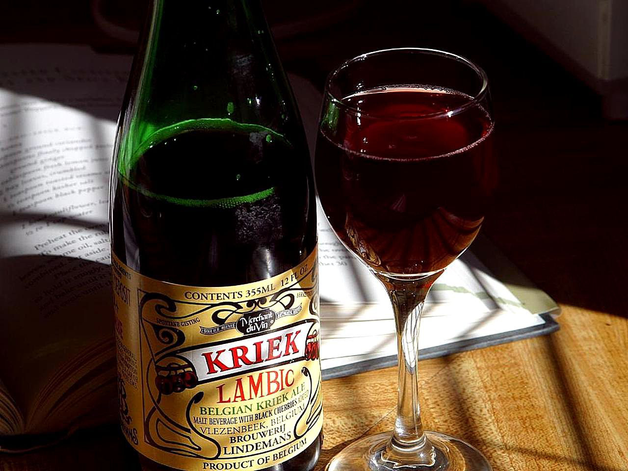 Image title: Belgin lambic Image from Public domain images website